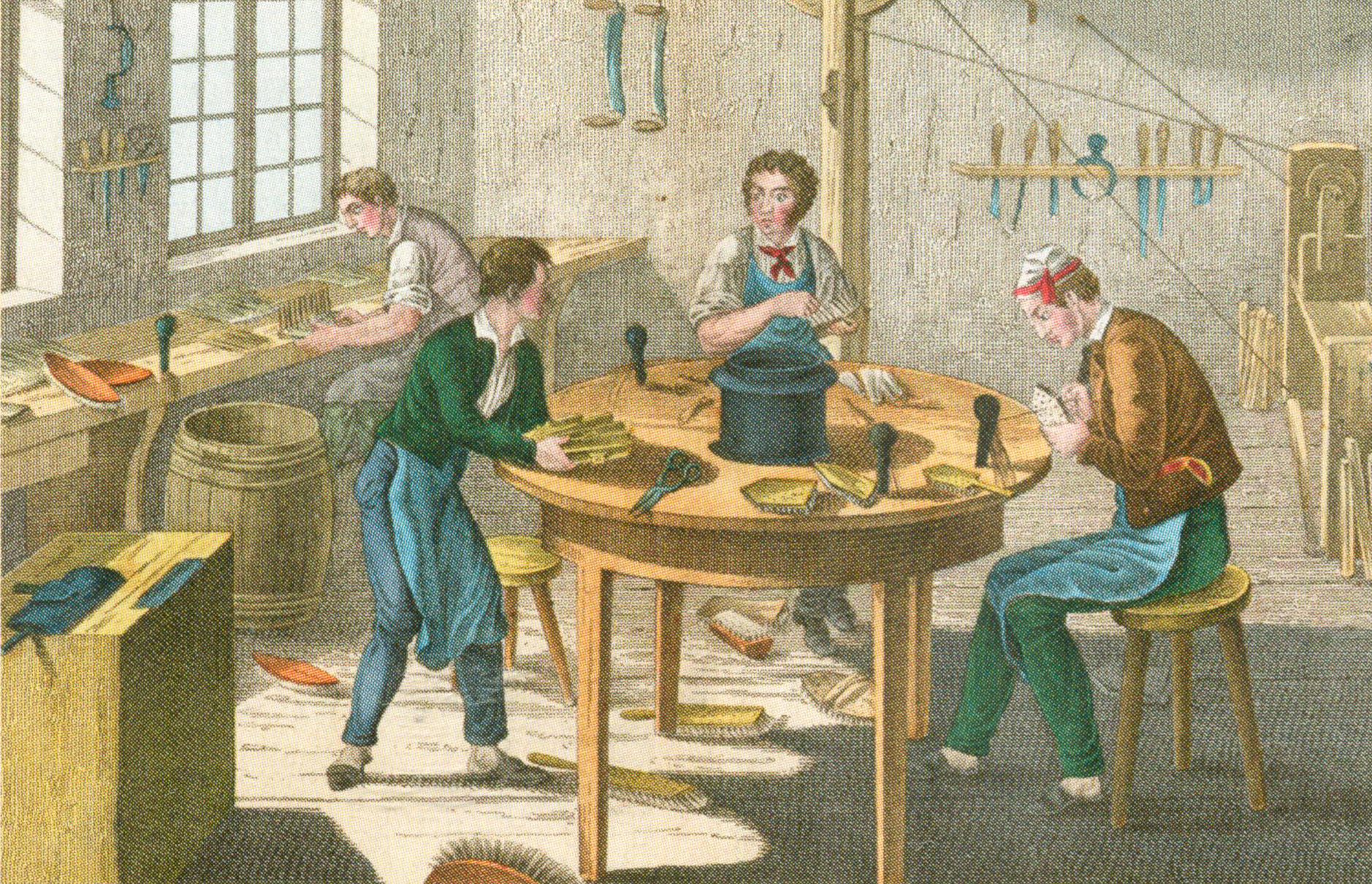 A brushmaker's workshop. One of twenty plates, representing the workrooms together with the principle tools and products of twenty different trades, published in Groningen in the Netherlands in 1849. Each of these coloured plates shows a different trade with a central scene showing tradespeople in a workshop, surrounded by a frame that includes the main tools and products of that trade.